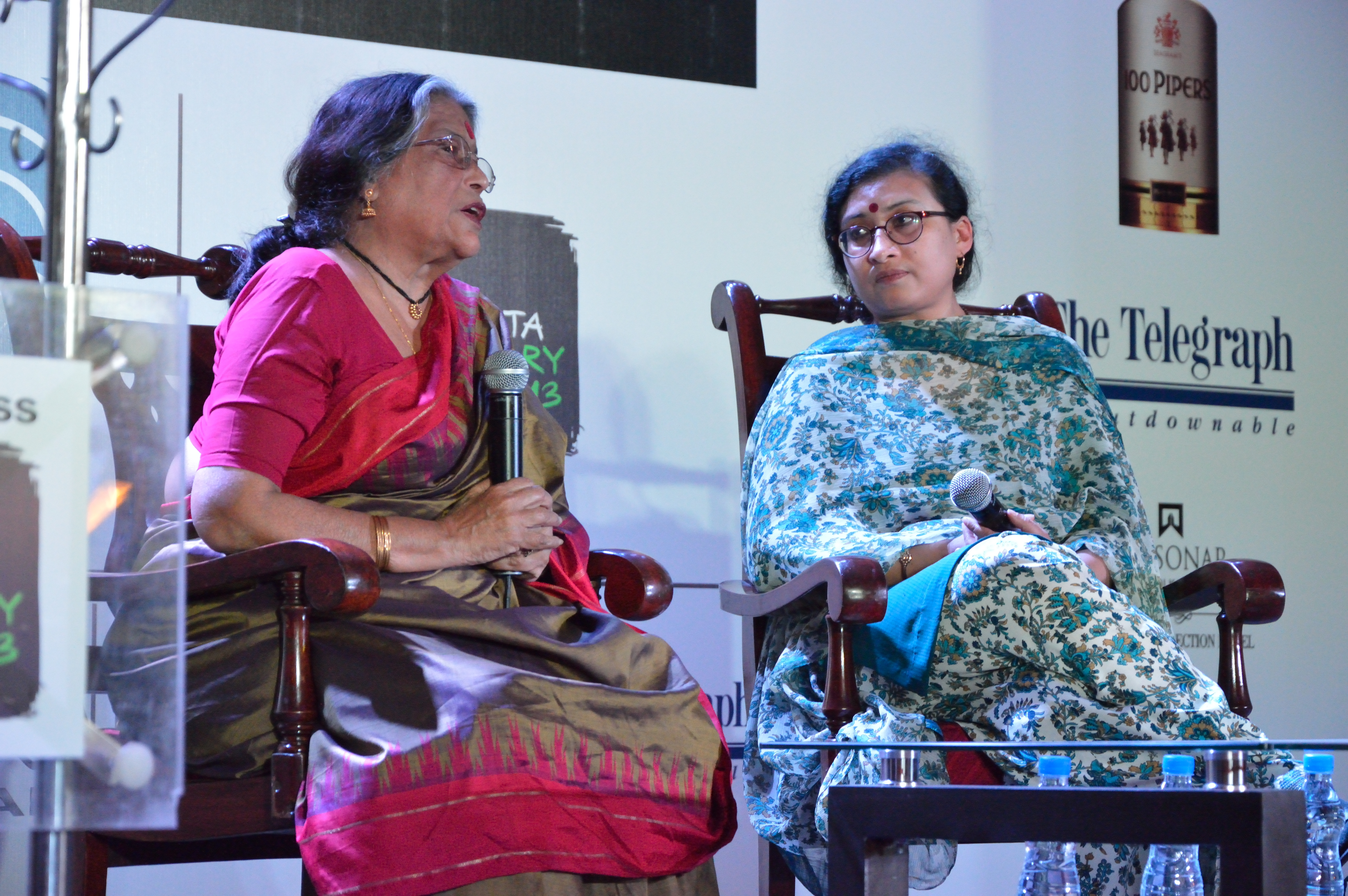 This shot was taken during the annual 'Kolkata Literary Meet 2013' was a part of the 'International Kolkata Book Fair 2013' held at the Milan Mela ground. It is a five day talk and interaction with general public of renowned persons from India and abroad.